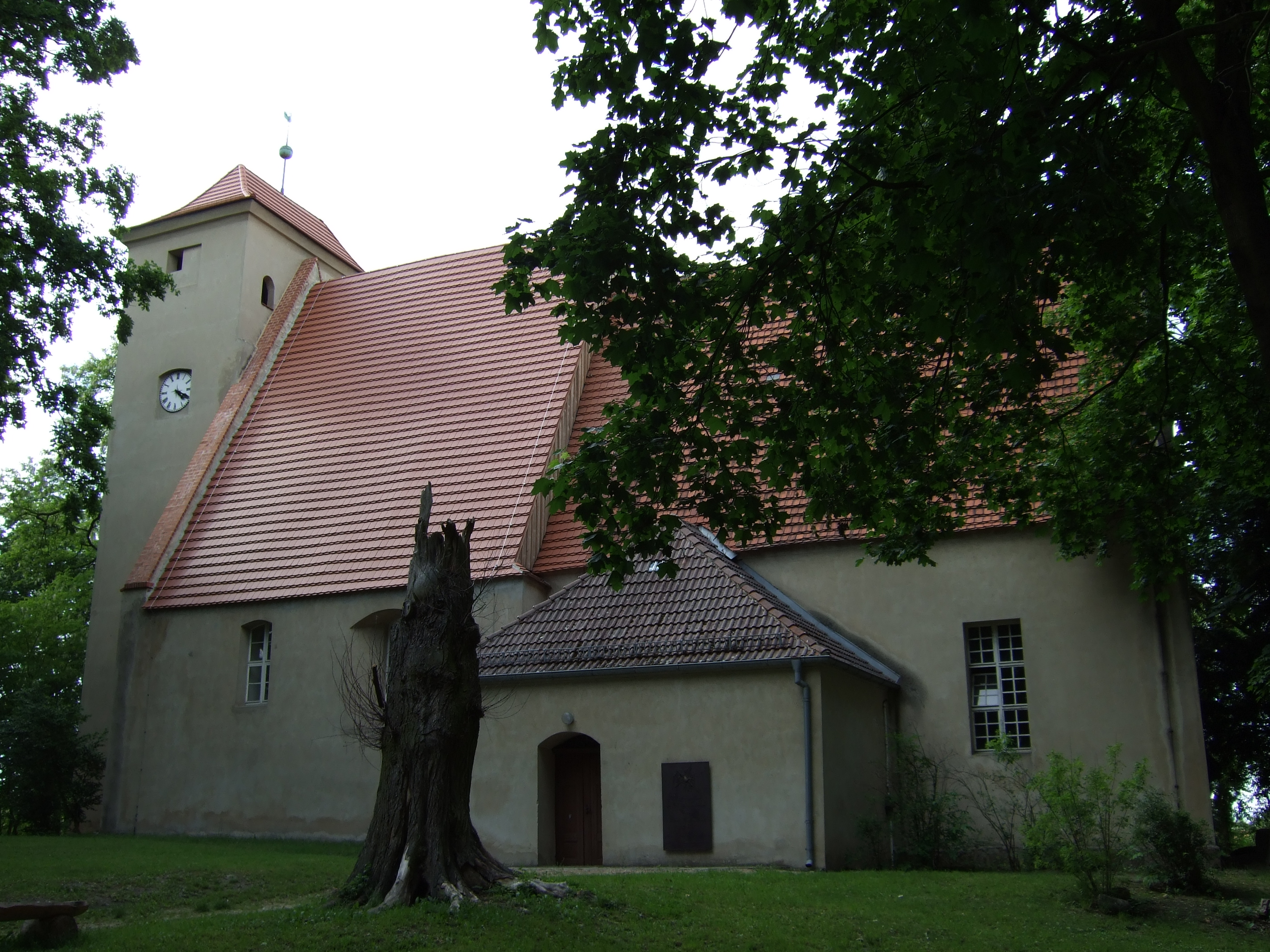 The Church in Booßen, Germany.